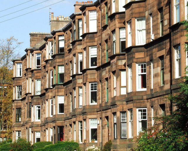 Dudley Drive One of many fine red sandstone tenement lined streets in Hyndland.